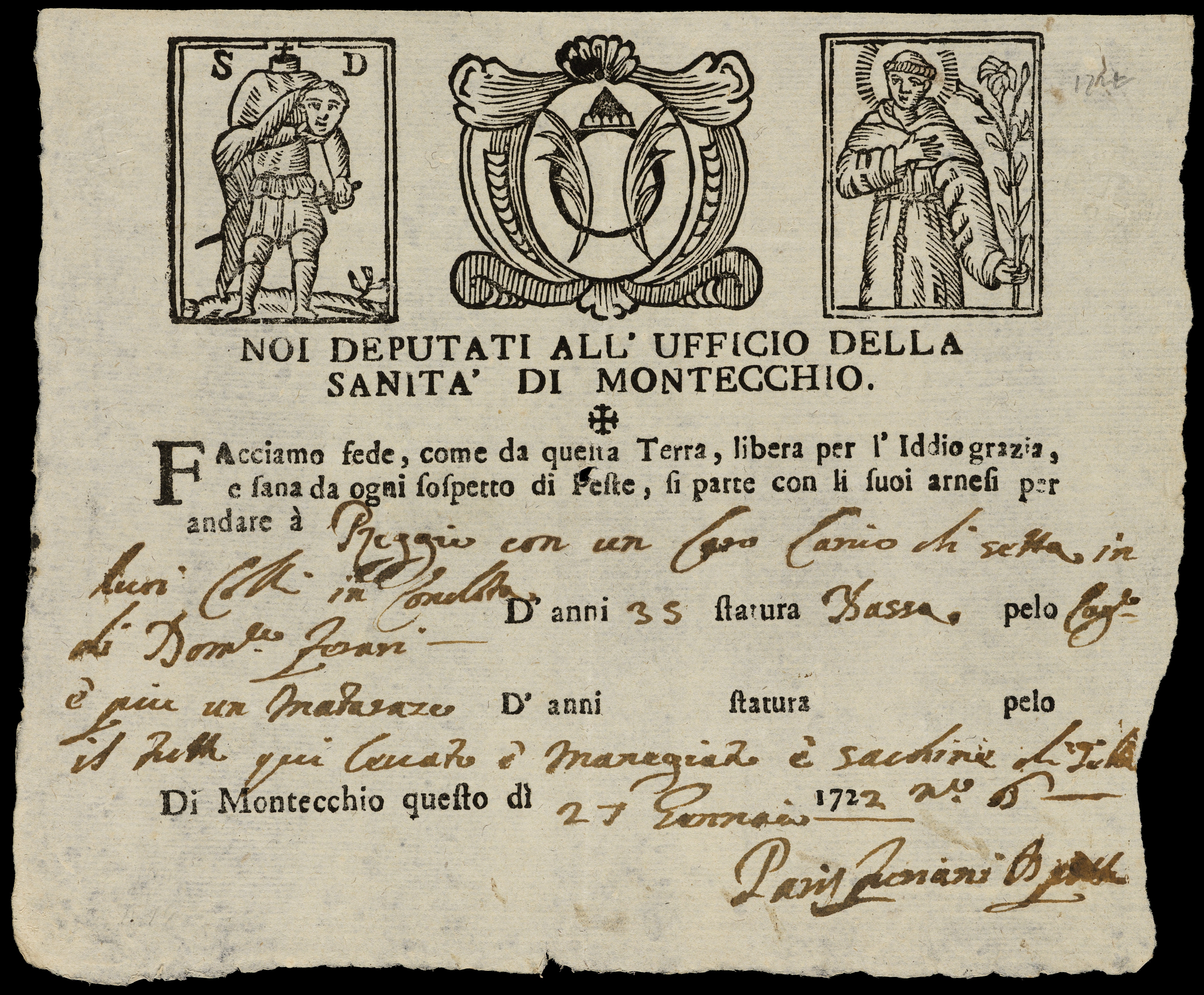 Health pass (fede di sanità) enabling the bearer to pass freely despite there being quarantines and heavy restrictions on travel due to plague. There are three woodcuts above the main body of text. General Collections Keywords: Public Health; Plague; Quarantine